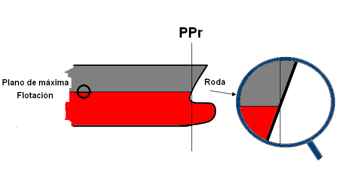 forward perpendicular (spanish)